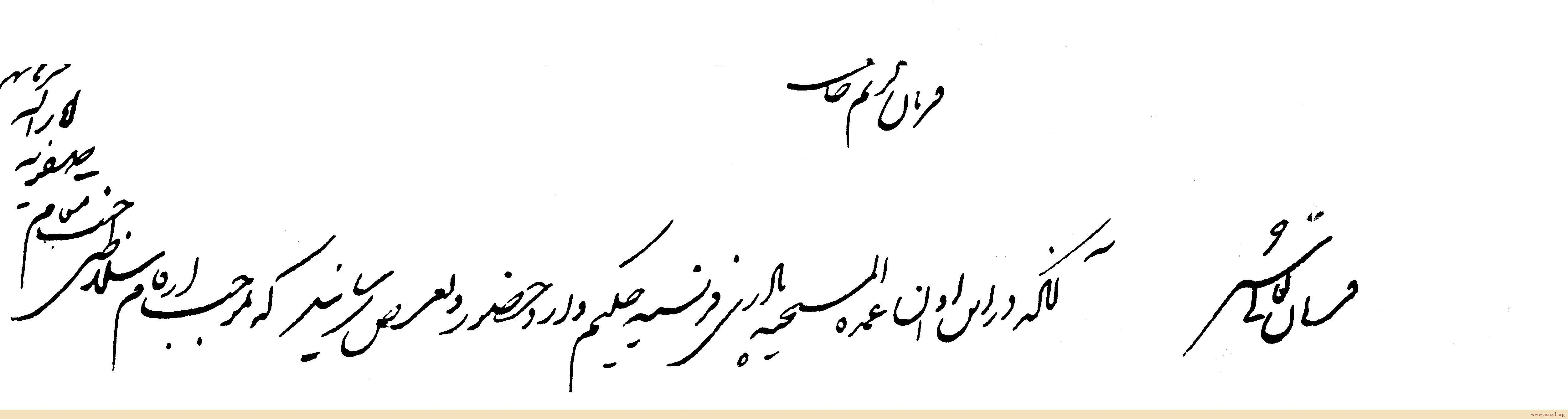 Decree signed by Karim Khan (1750-1779)